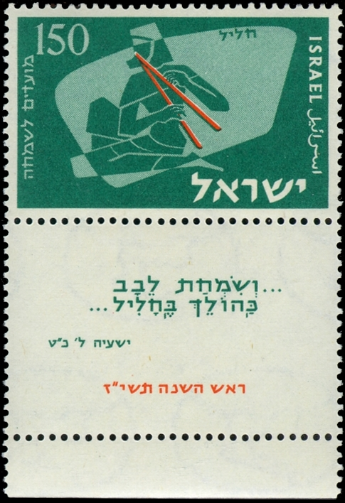 Joyous Festivals 5717 stamp - 150 mil - Flute. Inscription on tab: "...and gladness of heart, as when one goeth with a pipe..." Isaiah XXX, 29.